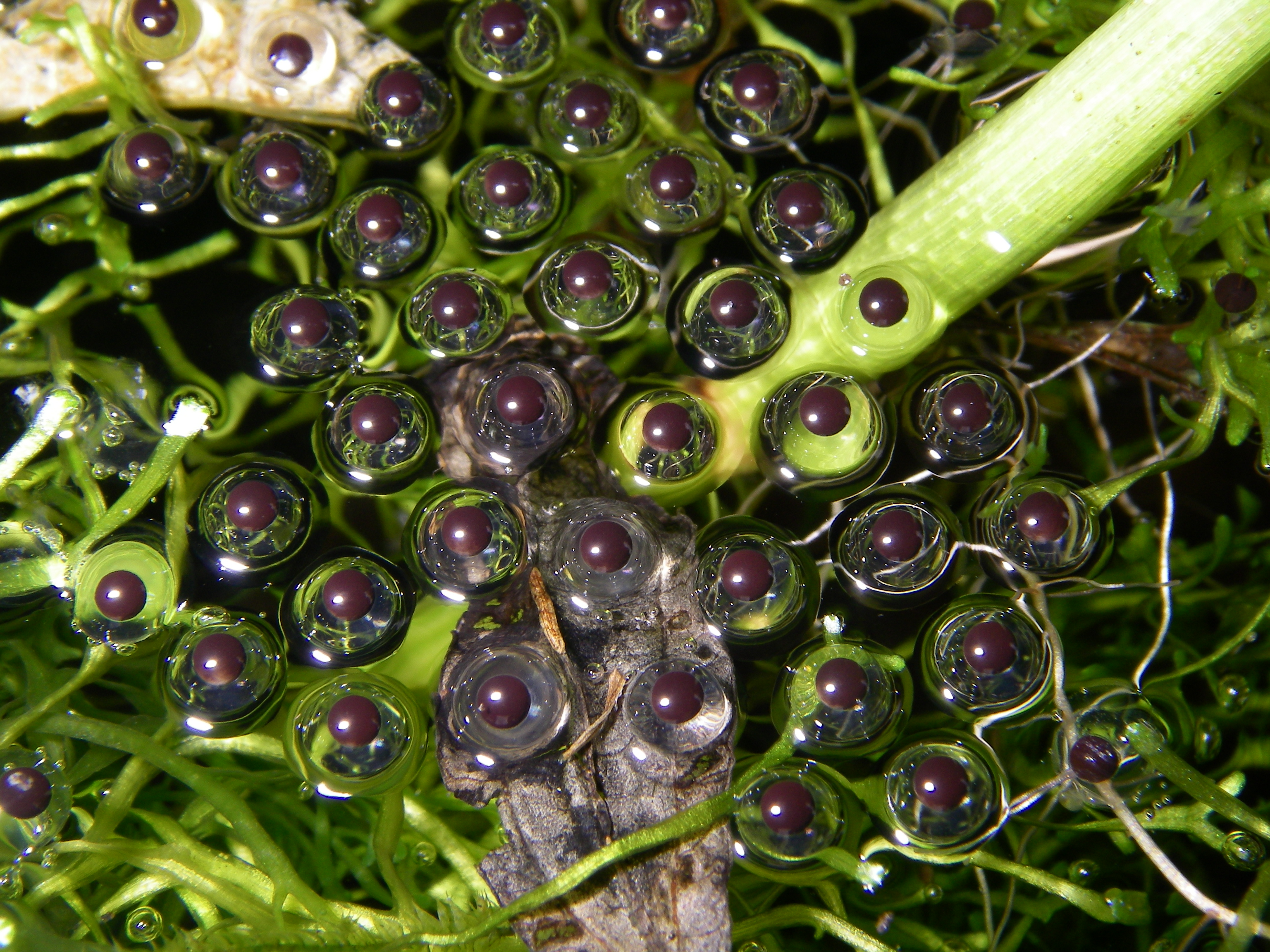 spawn of Paradoxophyla palmata (Microhylidae, Scaphiophryninae); from a ditch at the road between Ranomafana and Ambohitsara (Madagascar)